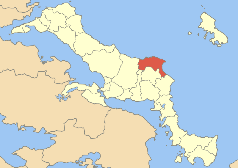 Locator map of Kymi municipality (Δήμος Κύμης) in Euboea prefecture (Νομός Εύβοιας) in Greece.